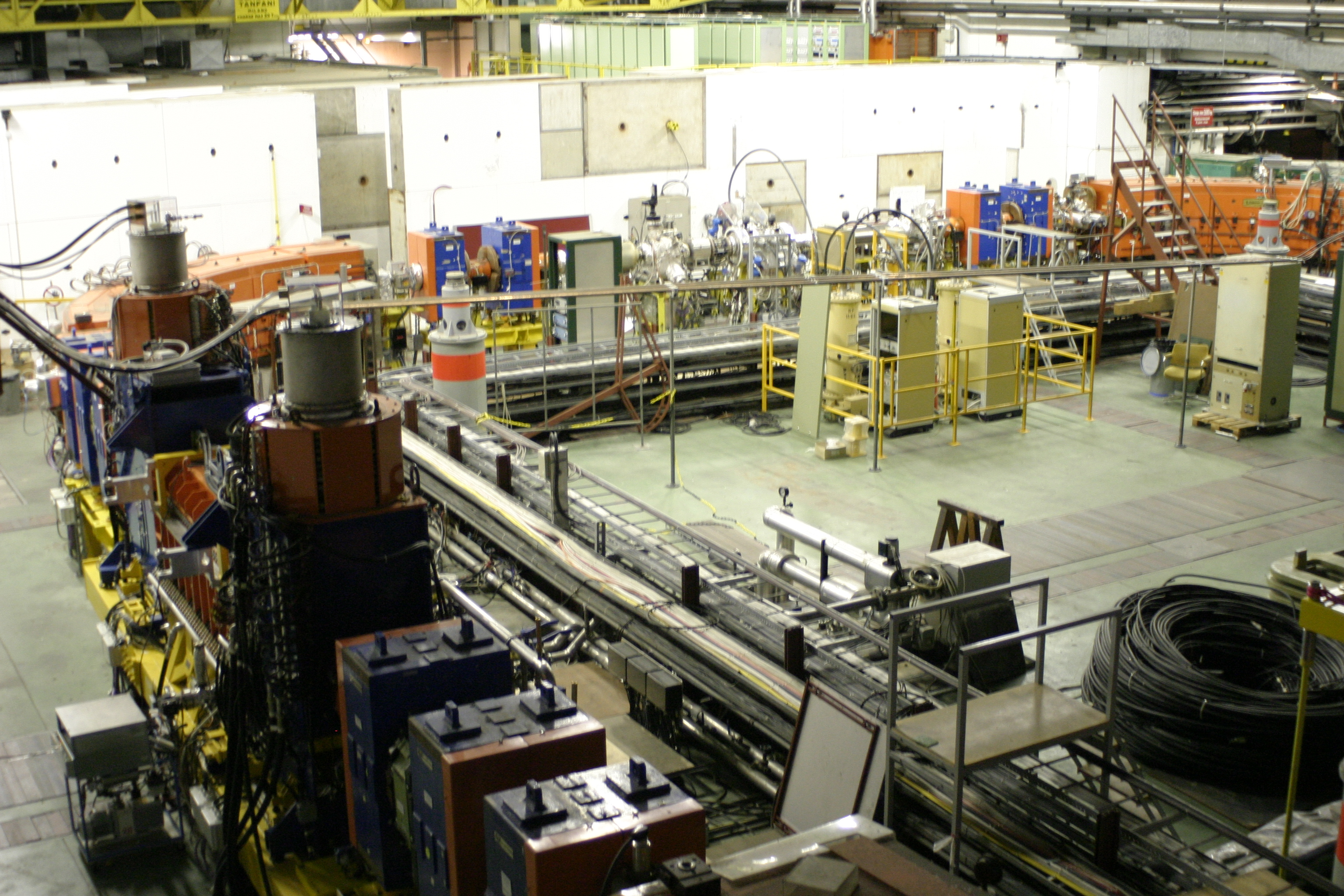 Antiprotons are delicious. Question answered on the tour, any matter has an antimatter equivalent, what would an anti-apple for example taste like if you took a bite of one? (very spicy) this particular ring you can see is sortof square. It is the 3rd stage of several more ultimately feeding the gigantic large hadron collider, so large in diameter it spans two countries and is hemmed in only by the Jura mountains on one side and lake geneva on the other.